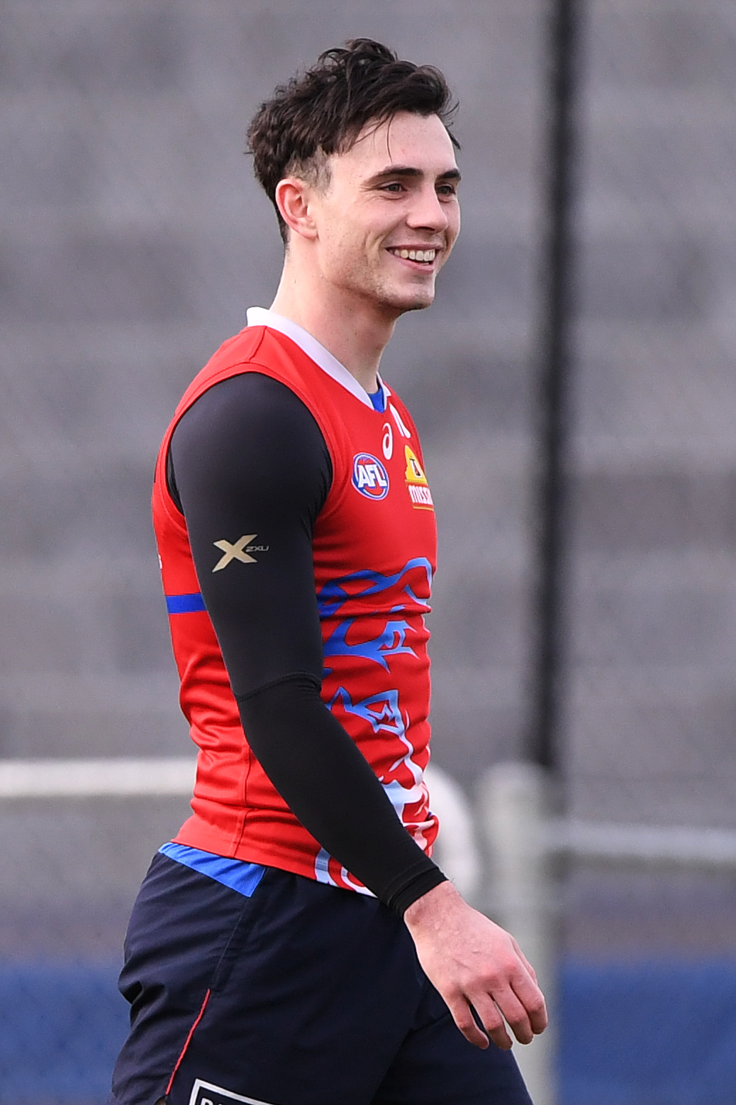 Toby McLean of the Western Bulldogs during Western Bulldogs training on 7 August 2018 at Whitten Oval in Melbourne, Victoria.